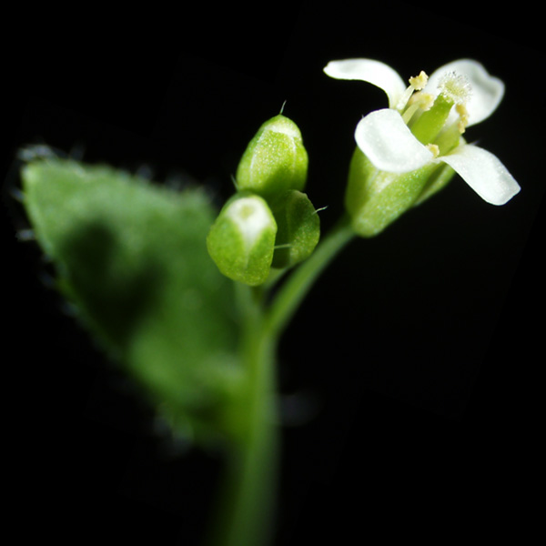 Arabidopsis thaliana flower シロイヌナズナの花の写真です。LEICA MZFL III使用。